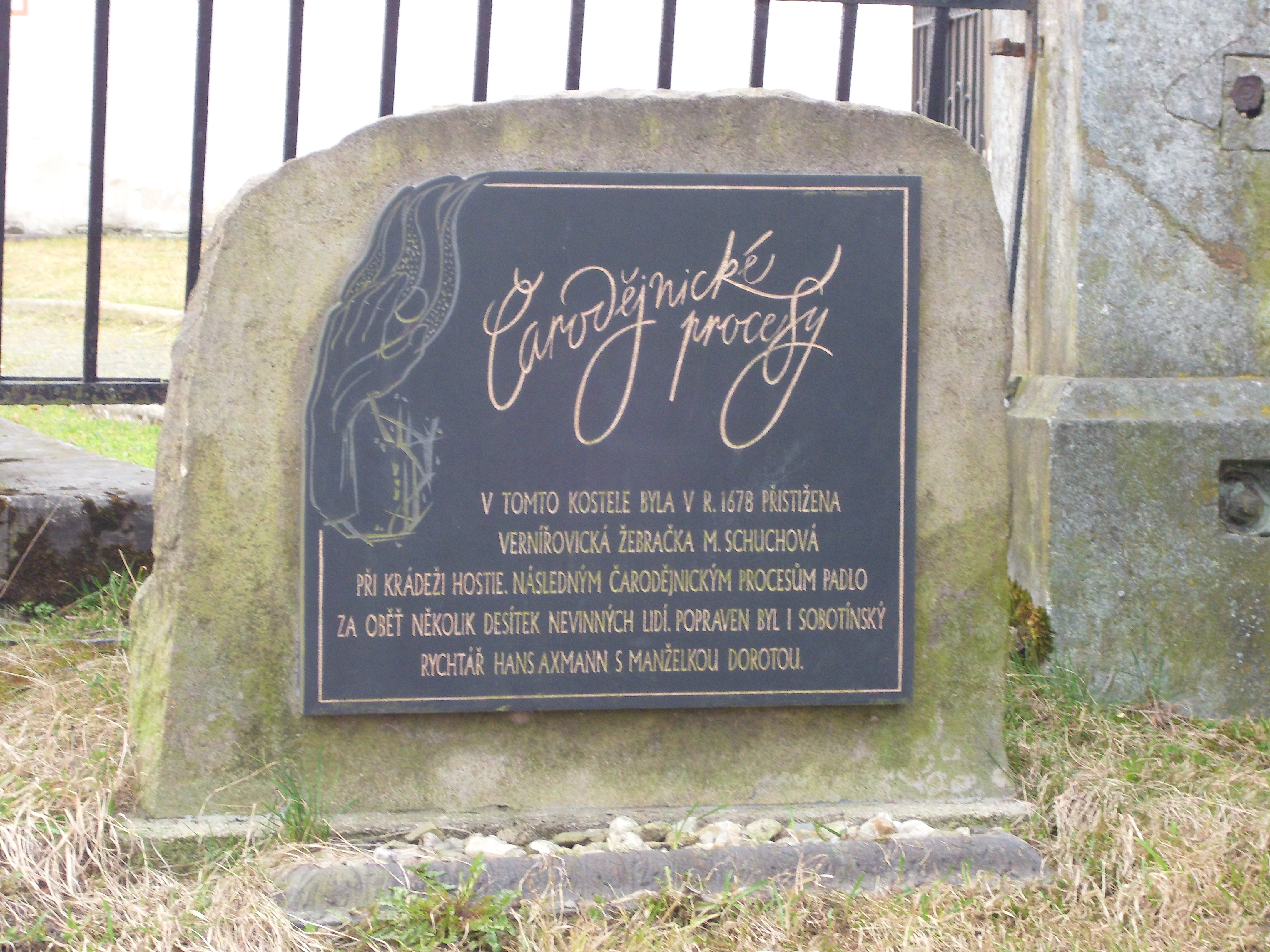 Memorial plaque in front of Church of St Lawrence in Sobotín, Czech Republic, commemorating victims of witch-hunting in 1678.